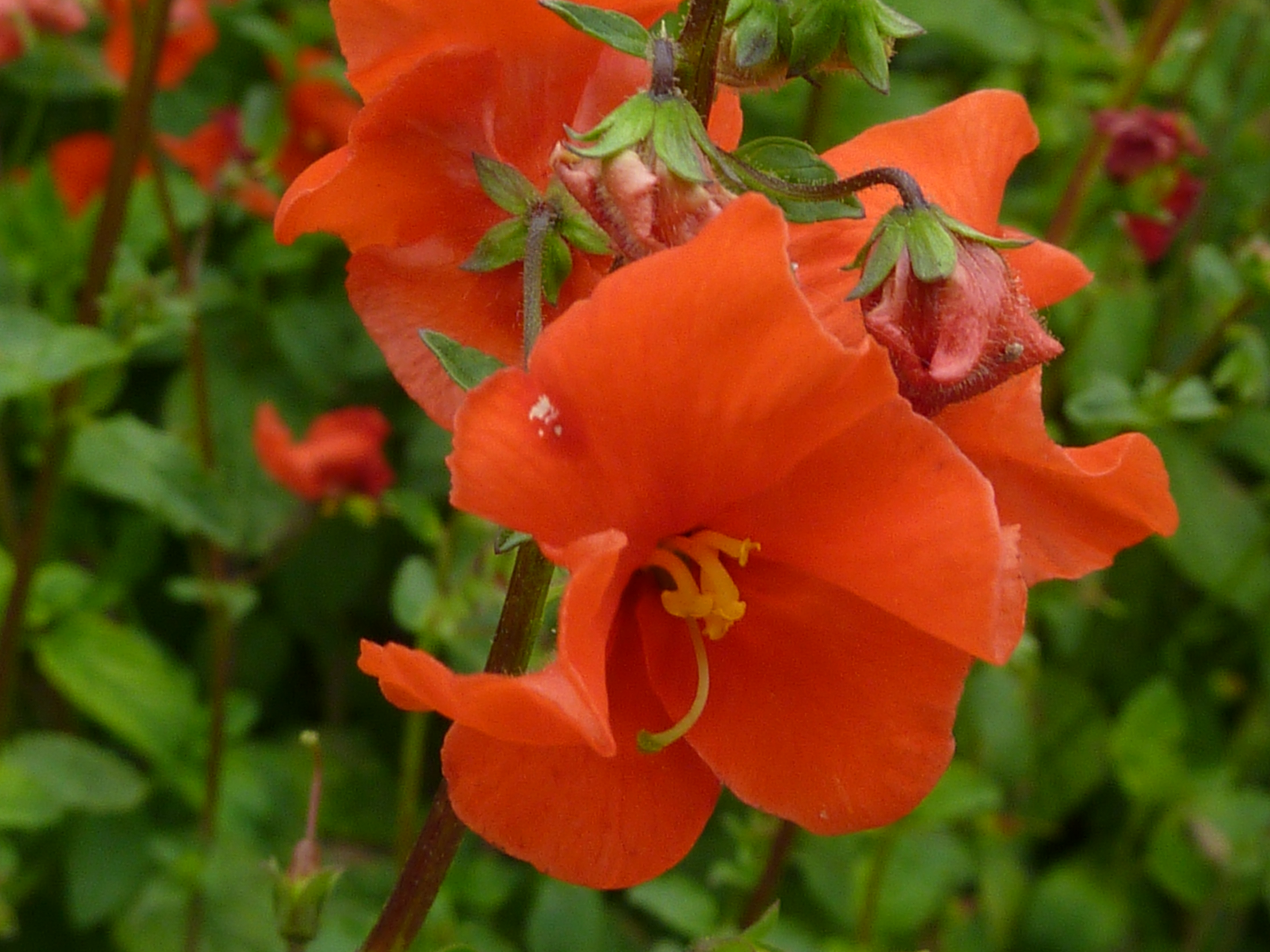 Alonsoa warscewiczii, Cambridge University Botanic Garden